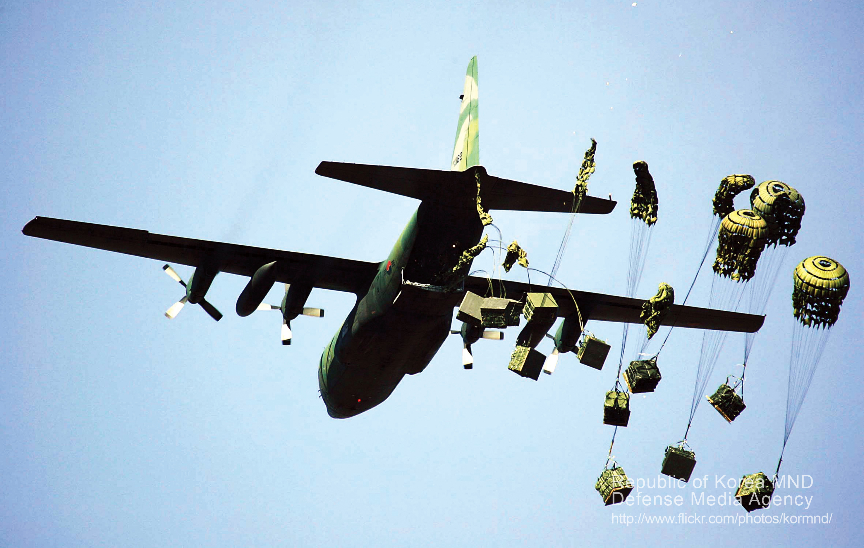 2008 국방화보 Rep. of Korea, Defense Photo Magazine 2008년 호국훈련에서 11월 2일 공군 C-130기가 공격중인 아군에게 보급 할 물자를 공중 수송해 투하하고 있다. A C-130 cargo aircraft of ROK Air Force is dropping down supply materiel for the ground in the Hoguk Exercise 2008, November 2.